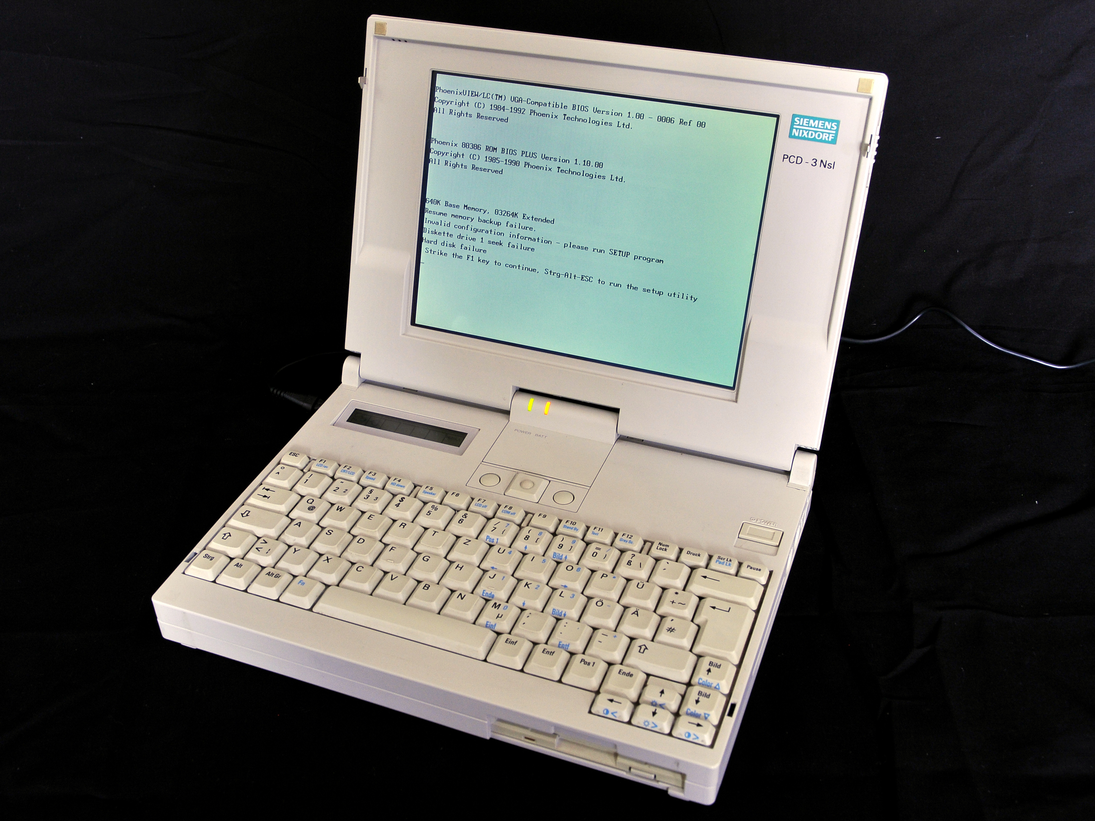 1992 Laptop PCD-3Nsl by Siemens-Sixdorf